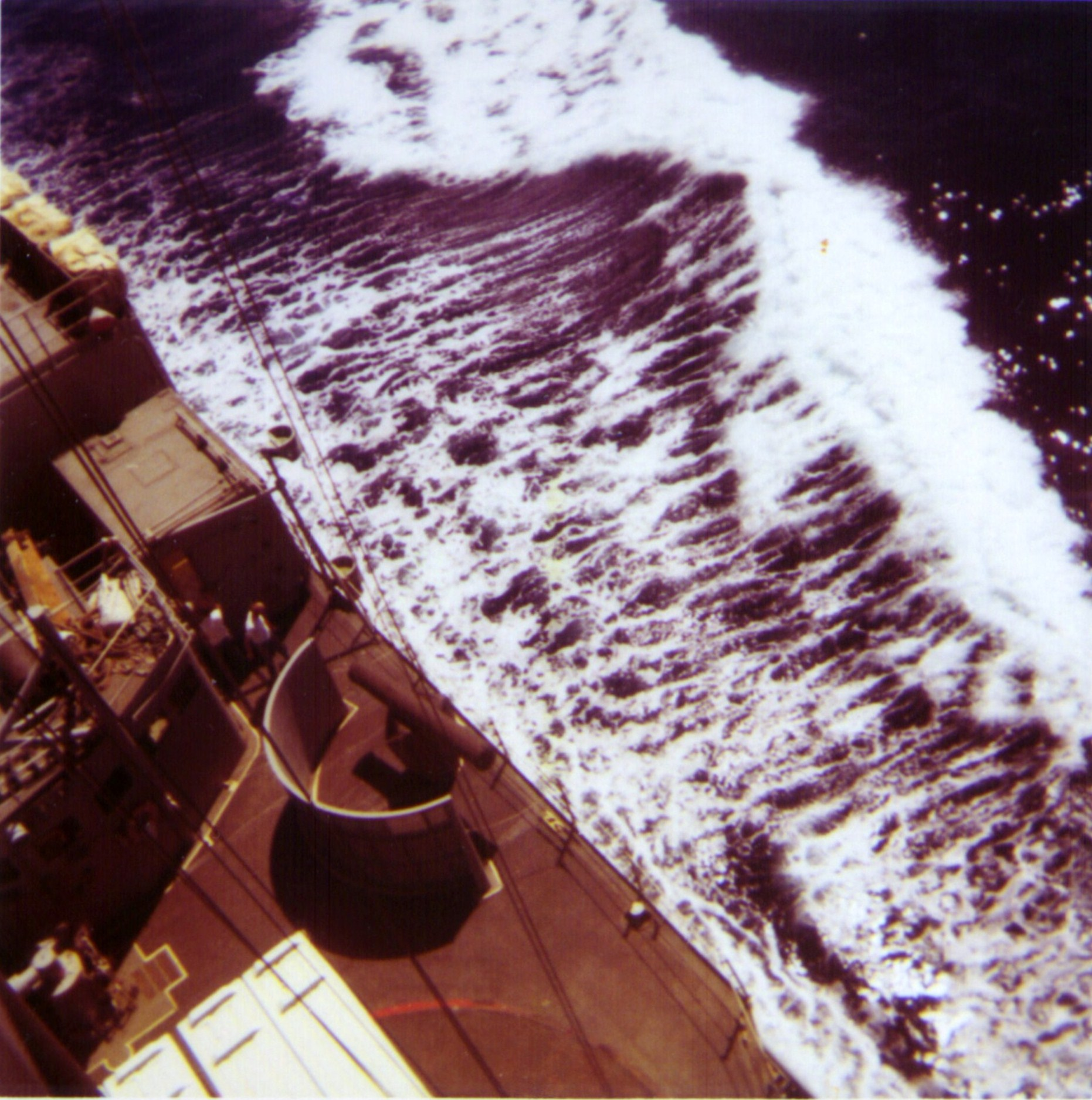 View of a chaff launcher aboard the U.S. Navy destroyer USS Hanson (DD-832), as viewed from the AN/SPS-37 platform. The chaff launcher was part of the SAMID Immediate Package Program (Ship's Anti-missile Integrated Defense: SAMID). It consisted of deck mounted chaff launchers with blast shields, a deck hut for the AN/SLQ-19B jammer, and support antennas mounted on port and starboard sides.